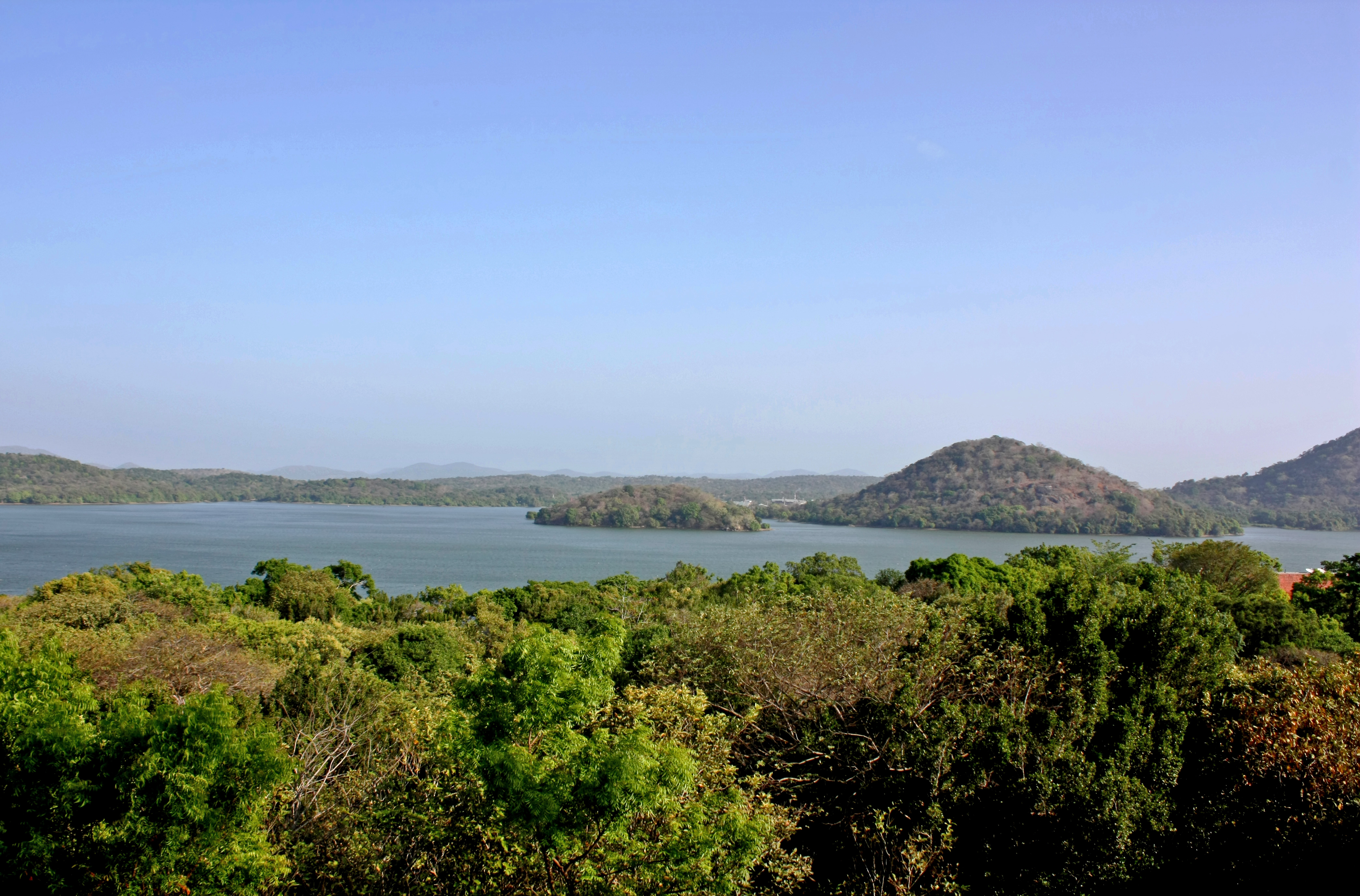 Giritale tank or Giritale wewa